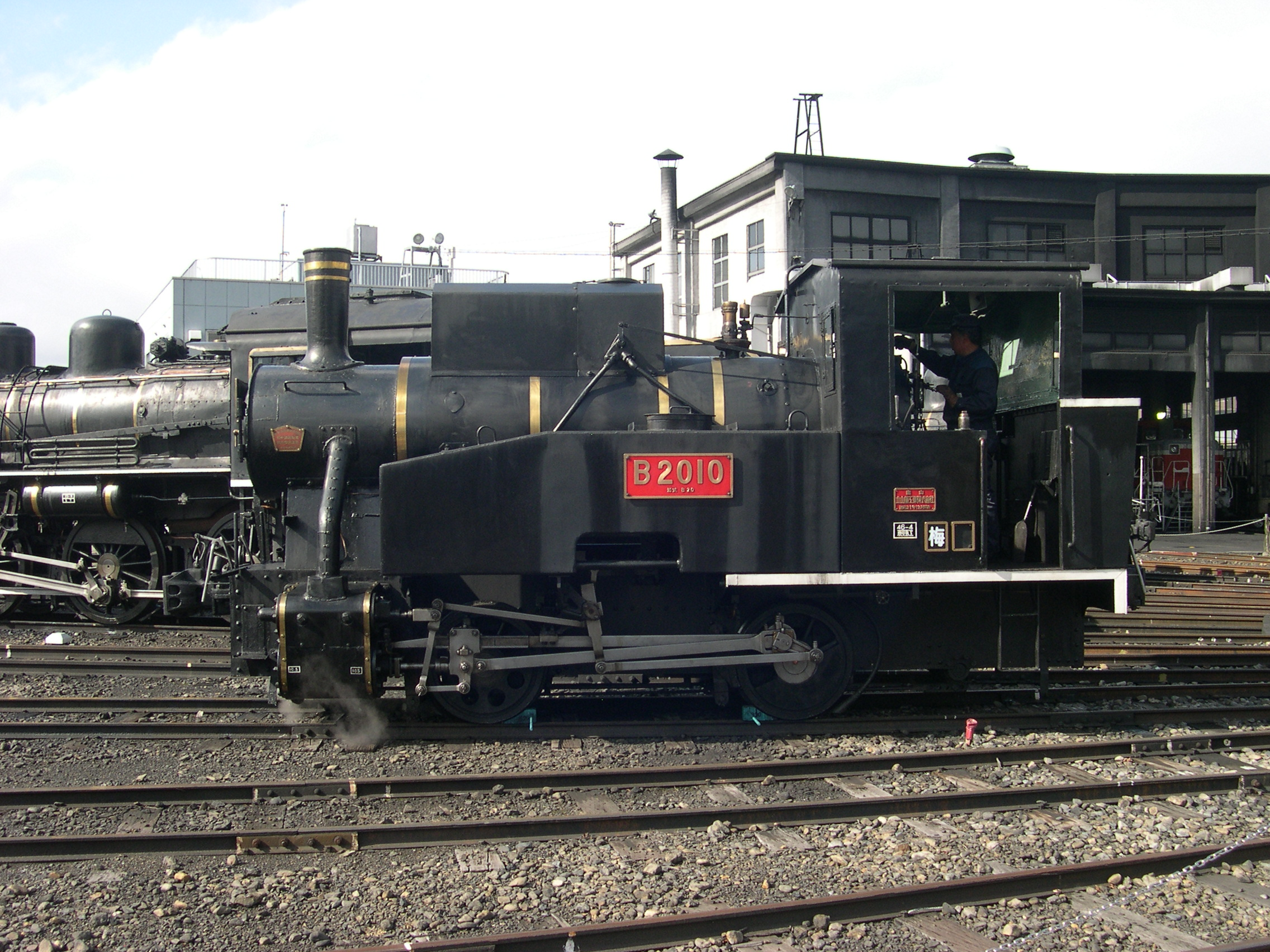 B2010 Steam Engine at Umekoji Museum